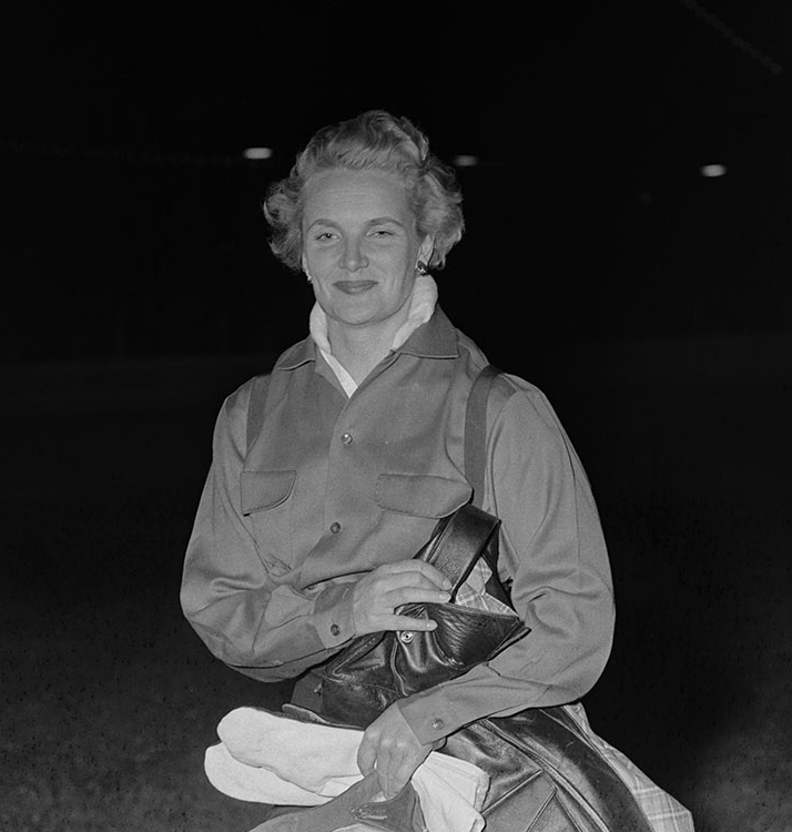 Countess Agnes Von Rosen, 'Hell driver', Sydney, September 1955, Pix Magazine, from original negative, State Library of New South Wale, ON 388/Box 040/Item 091